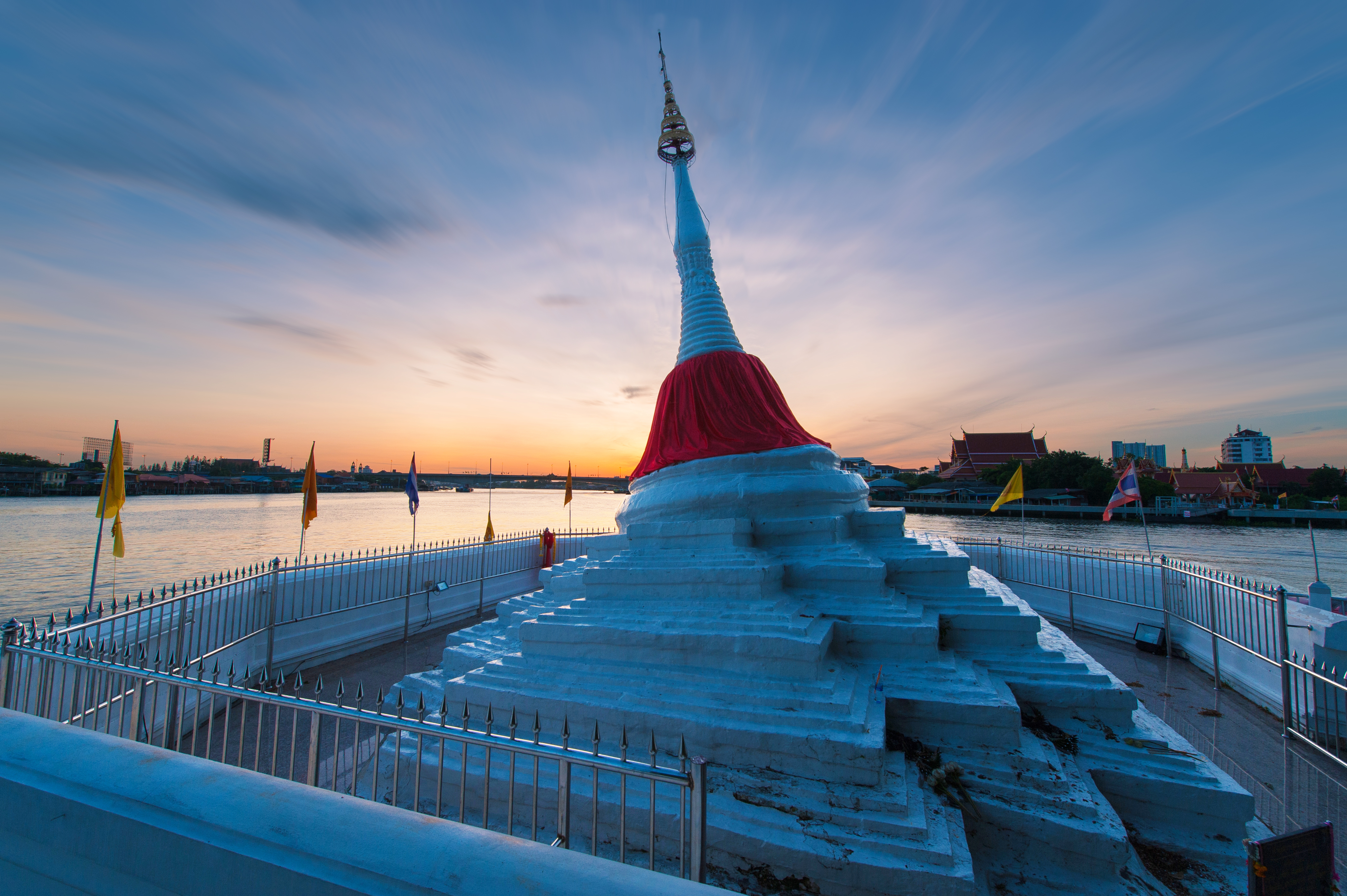 The leaning chedi of Wat Paramaiyikawat Worawihan at Ko Kret, Pak Kret District, Nonthaburi Province